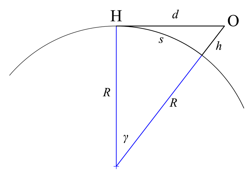 Diagram of geometrical distance to the horizon